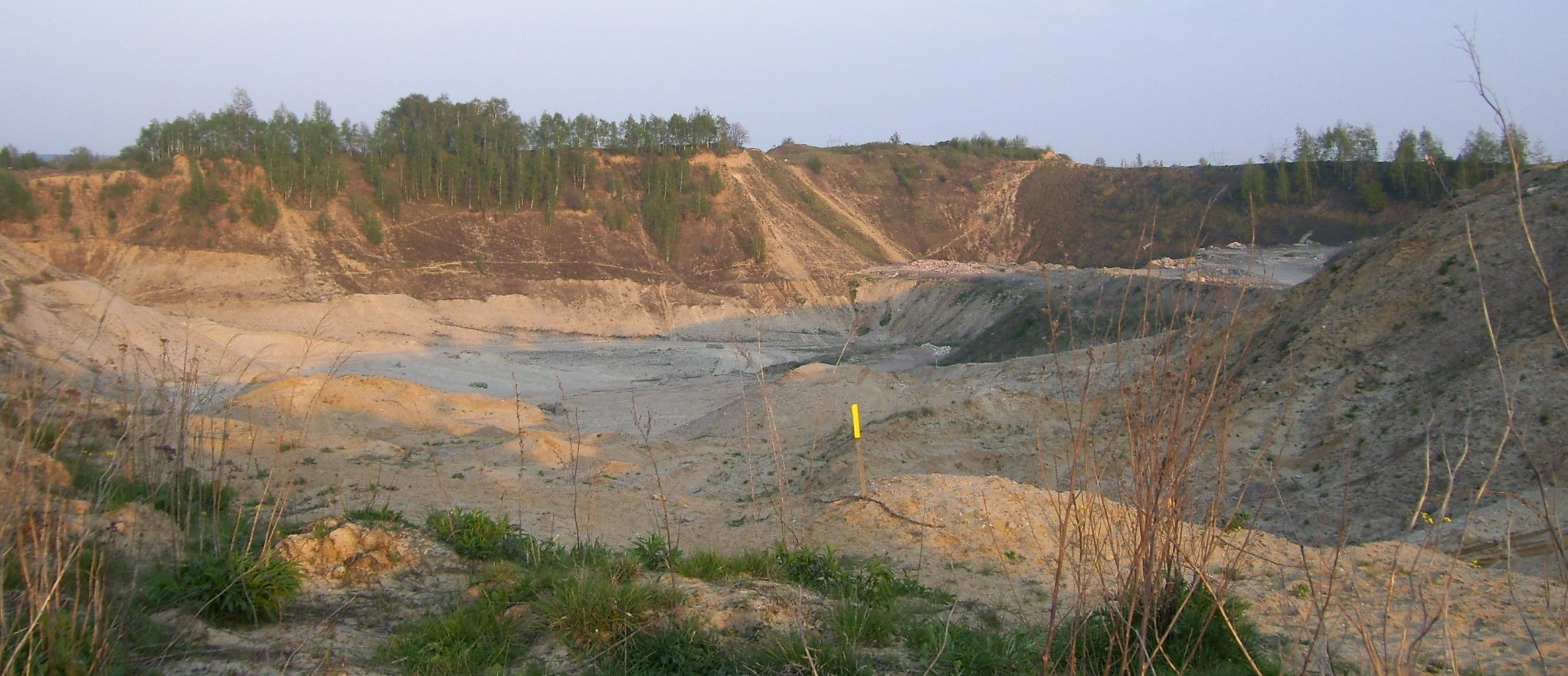 Gravel Pit Lodz Stoki